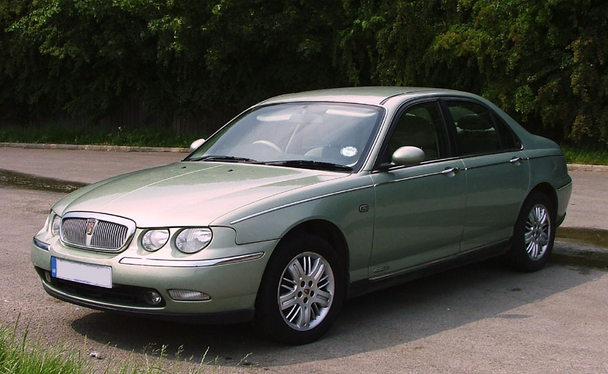 Photograph taken by myself of a family member's Rover 75.